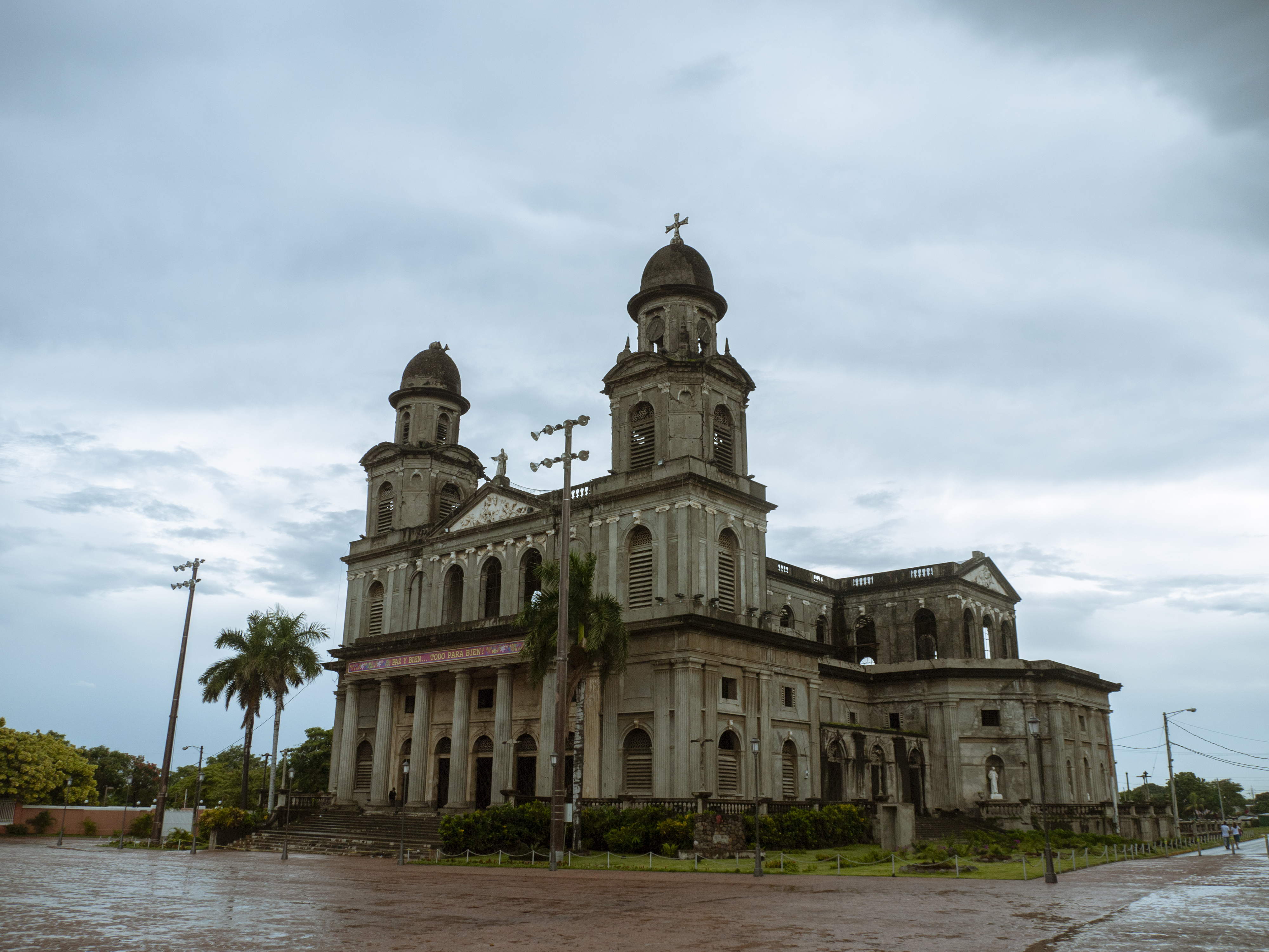 The old Cathedral (antigua catedral) of Managua in 2012